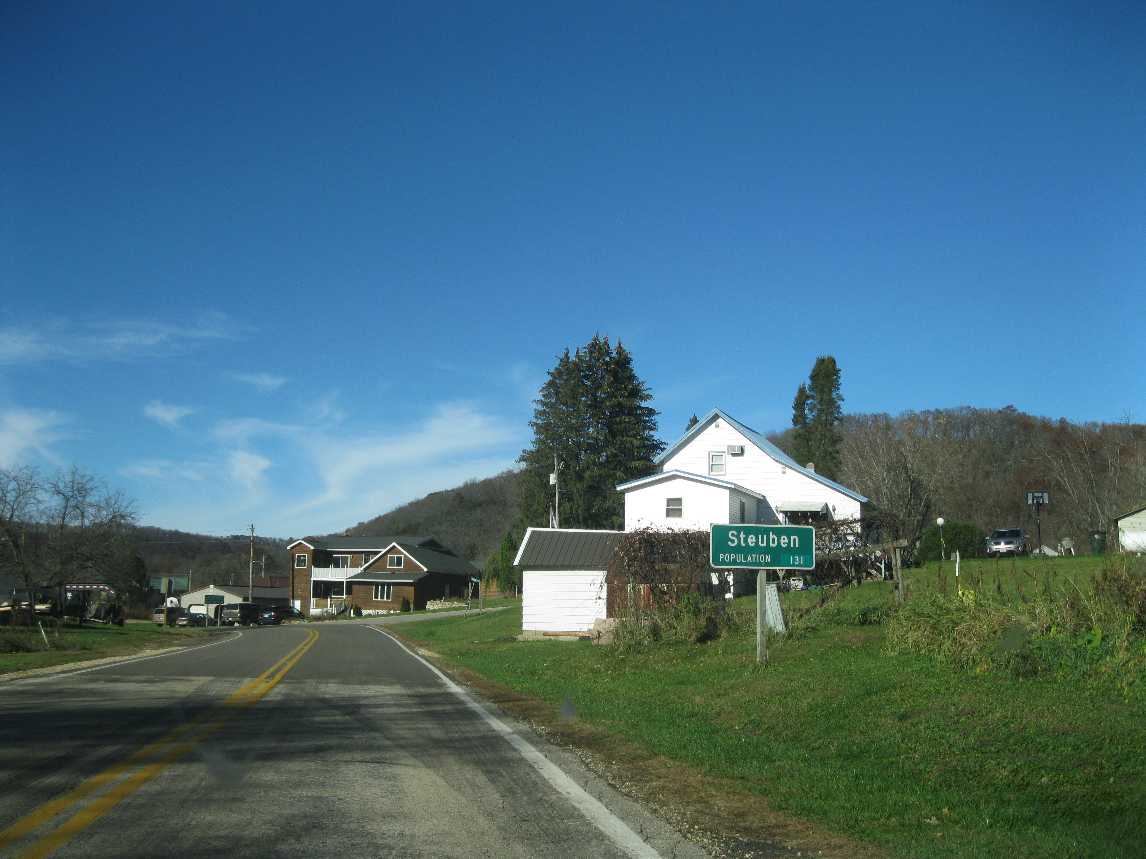 Entering Steuben, Wisconsin from the south on Wisconsin Highway 131.